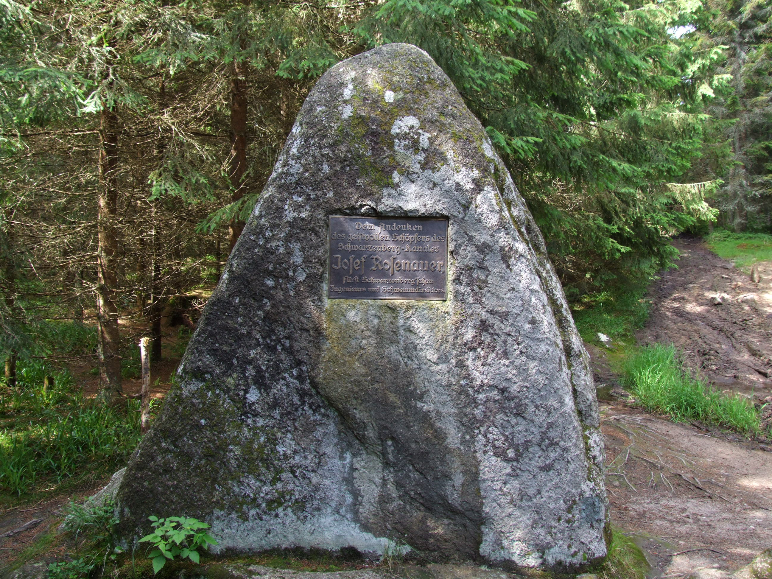 Šumava / Böhmerwald - Rosenauer memorial